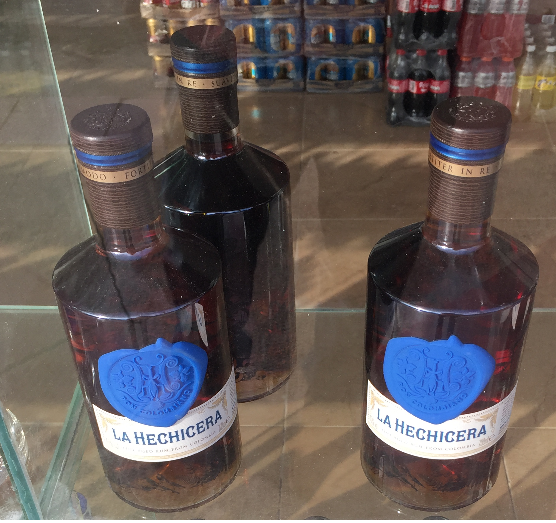 Rhum La Hechicera